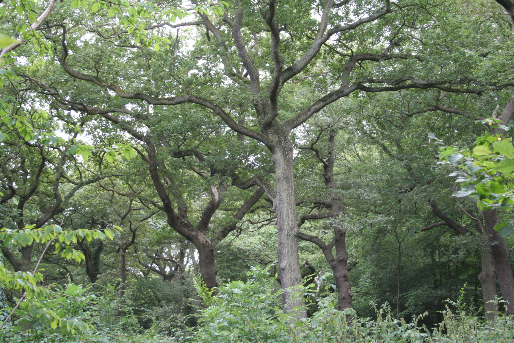 Photograph taken by me on Canon EOS350d in Queen's Wood, Highgate, London, on 29 July 2006 Category:Images of London